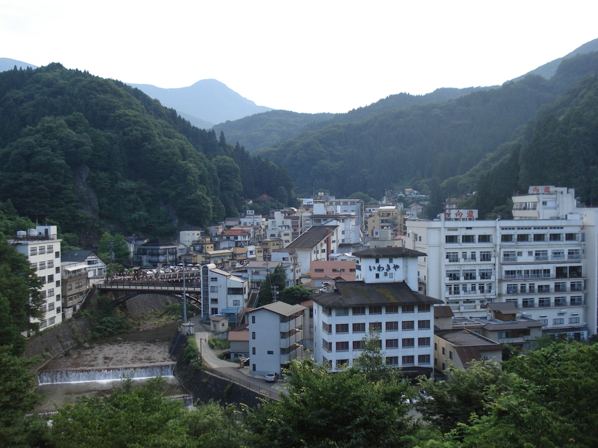 The distant view of Tsuchiyu-Spa, Fukushima city, Fukushima prefecture, Japan